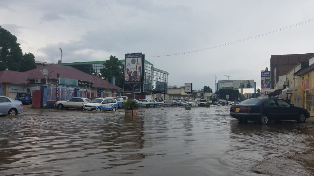 this is bujumbura whenever there is a heavy rain this has to happen due to poor irrigation. This is an image with the theme "Africa on the Move or Transport" from: Burundi